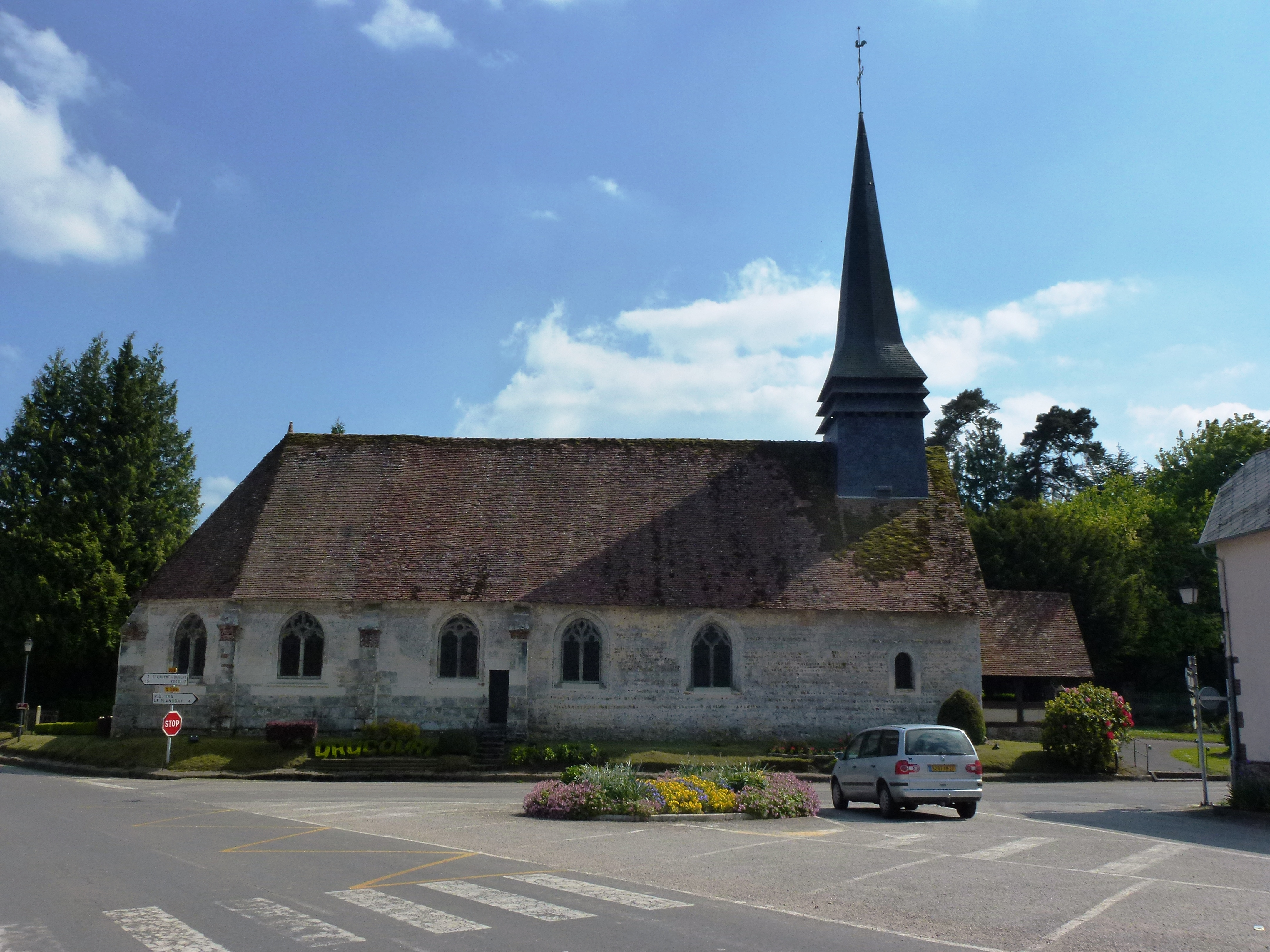 Drucourt (Eure, Fr) église Notre-Dame